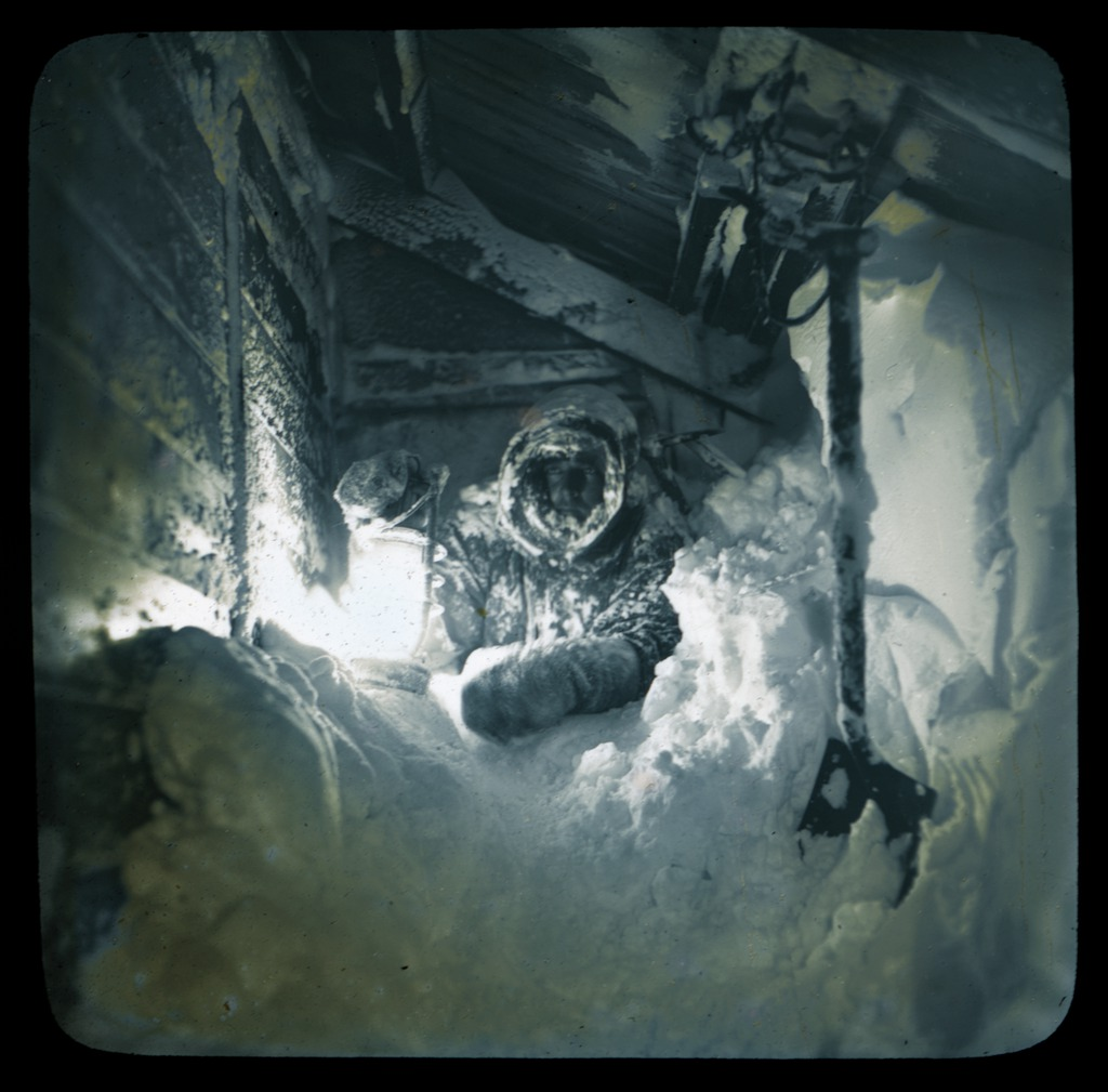 An incident in March soon after completion of the hut, Hodgeman, the night watchman returning from his rounds outside pushes his way into the veranda through the rapidly accumulating drift snow, Adelie Land [Australasian Antarctic Expedition, 1911-1914] The identity of the person in the photograph is uncertain as he has been identified as Mertz in one publication and Hodgeman in another publication.; Part of the John George Hunter collection of photographs, 1911-1914.; Condition: green, silvering.; Published in: The home of the blizzard / by Douglas Mawson. London : William Heinemann, 1915, v. 1 facing p. 128.; Reverse of image identifying Xavier Mertz as the subject published in: The home of the blizzard : being the story of the Australasian Antarctic Expedition, 1911-1914 / by Sir Douglas Mawson. Kent Town, S. Aust. : Wakefield Press, 1996.